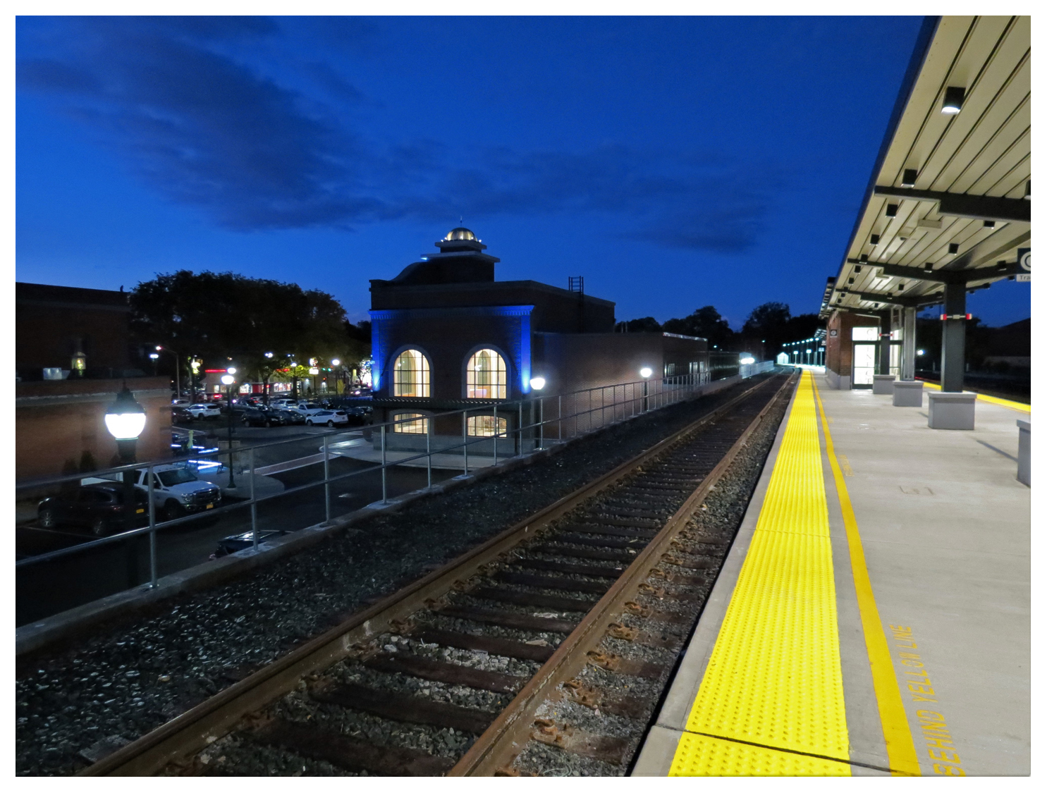 View of new station on first day of service on Oct 17 2018, from rebuilt island platform